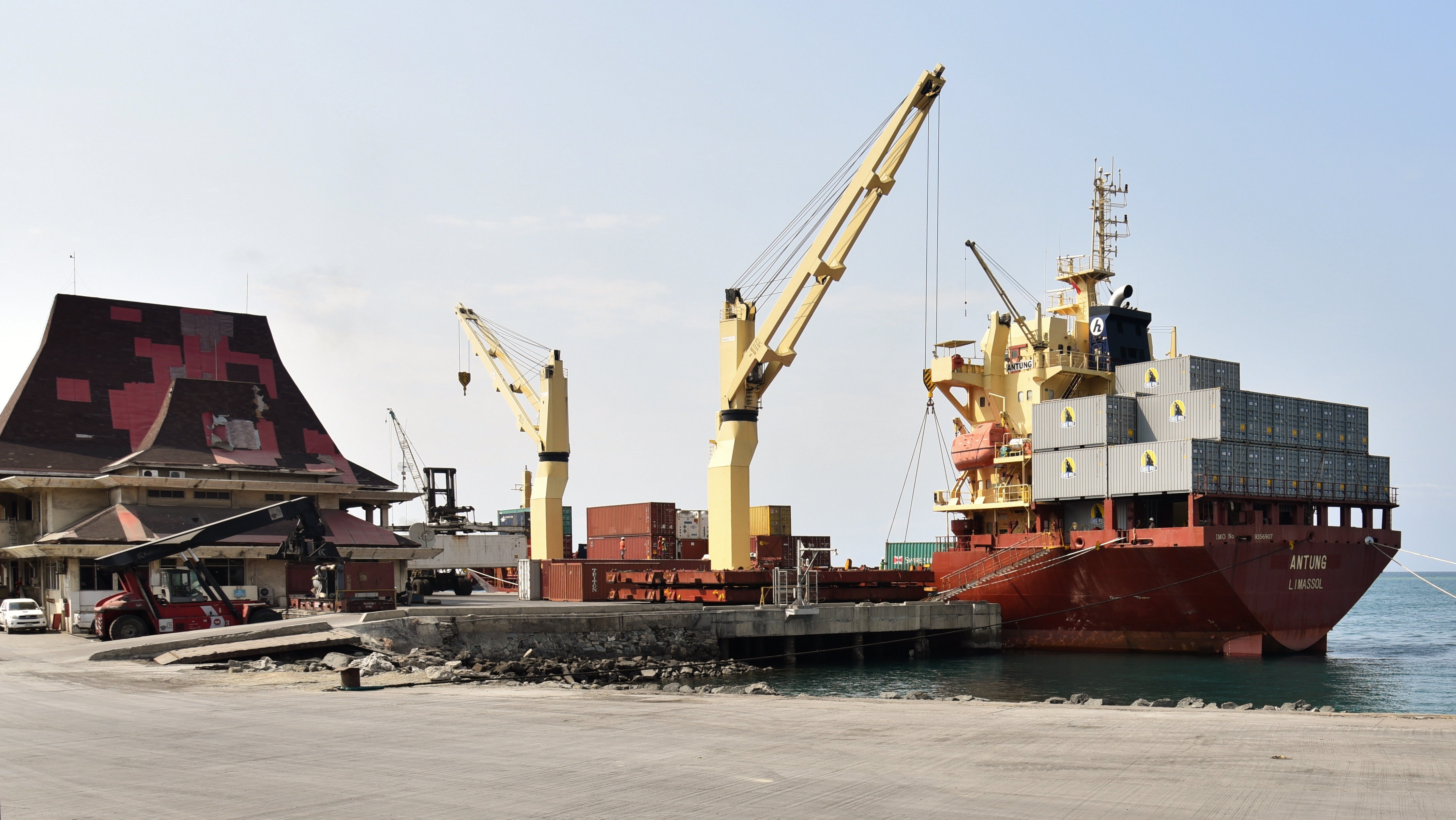 General cargo ship Antung berthed at Dili, East Timor